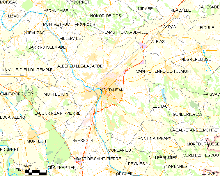 Map of French municipality Montauban